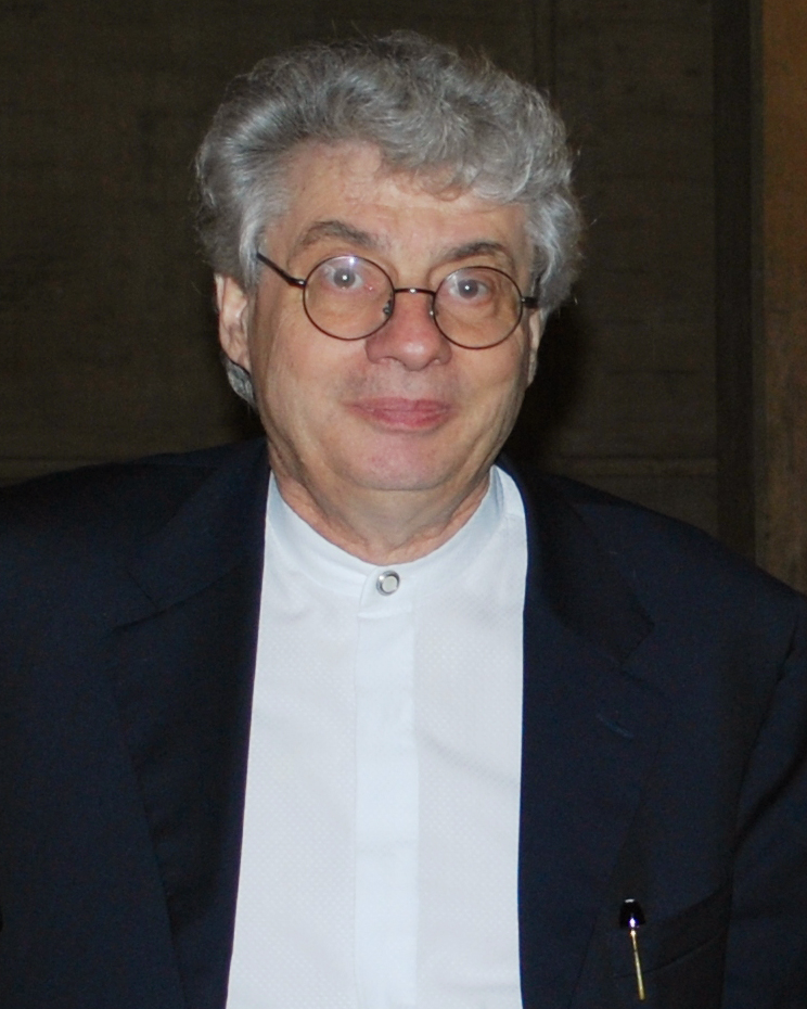 Mario Botta at Swiss Embassy in New Delhi, 2010